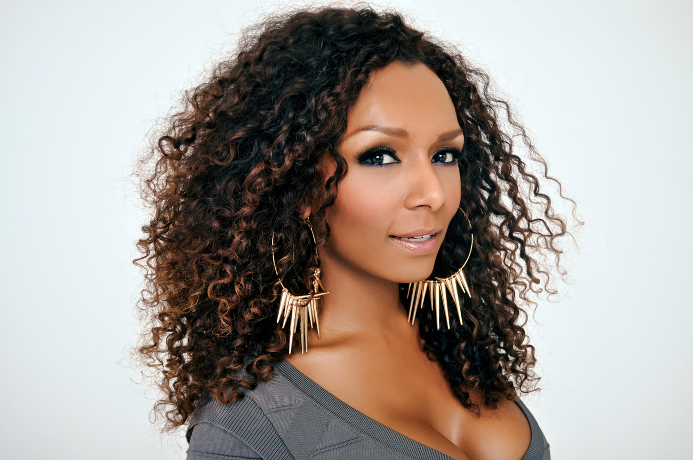 Taken in Manhattan on February 12th, 2012 by Juston Smith